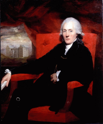 Portrait of Sir James Stirling, 1st Baronet (c.1740–1805), Scottish banker and lord provost of Edinburgh.